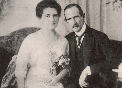 Archduke Karl Ferdinand Ludwig of Austria 1868-195, brother of Franz Ferdinand. After 1911 under common subject name Ferdinand Burg, photo from 1912, with his wife Berta, born Czuber